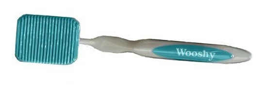 The Wooshy tongue cleaner